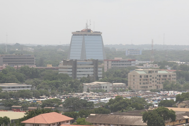 Panorama of central Accra